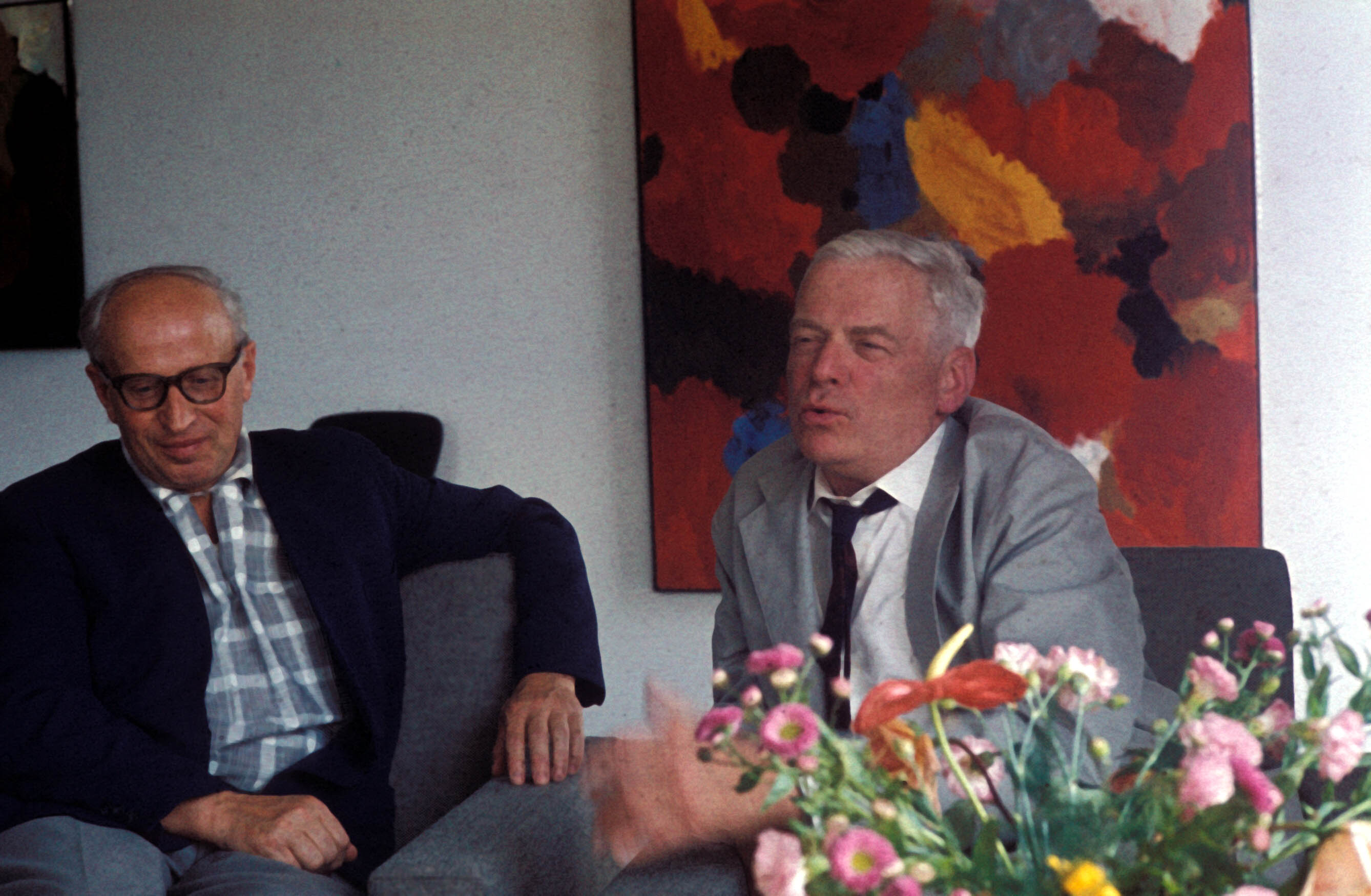 Ernst Wilhelm Nay (right) at home in Cologne in discussion with an art collector; in the background his painting Gelbfeder in Rot (1959) which was used for a stamp issued by the German post on the occasion of Nays 100th birthday.